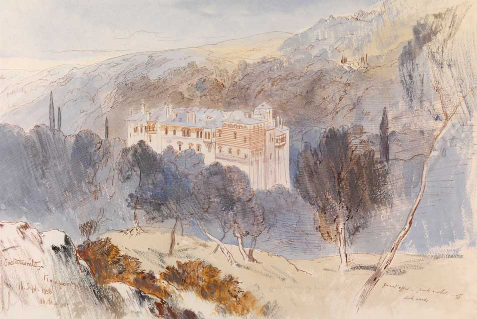 Edward Lear - Monastery of Konstamonitou, 1856. Pen, brown ink and watercolour with bodycolour on buff paper